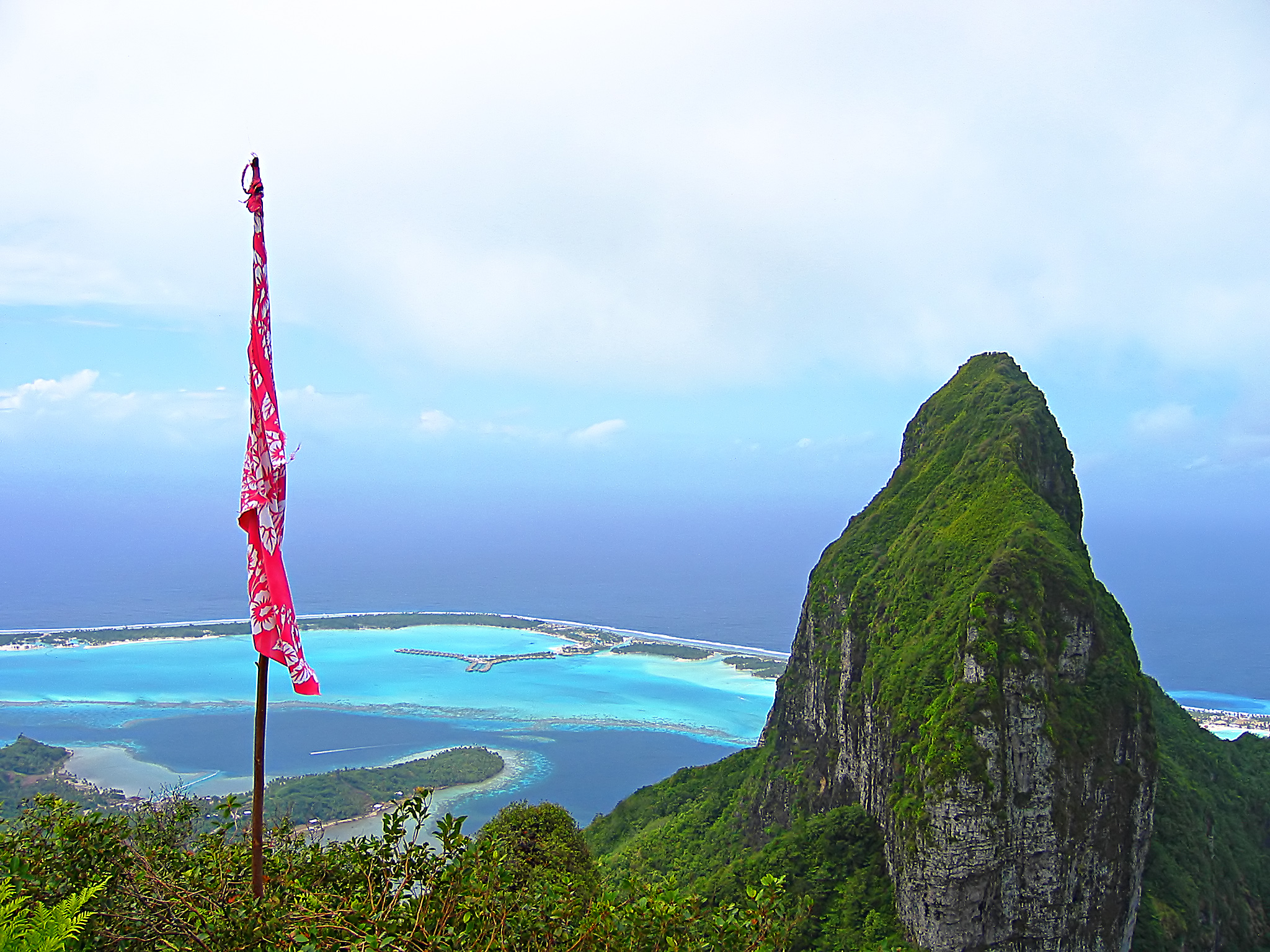 Bora Bora, North-East view from Mt. Pahia, French Polynesia